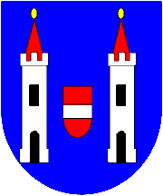 Neveklov, coat of arms